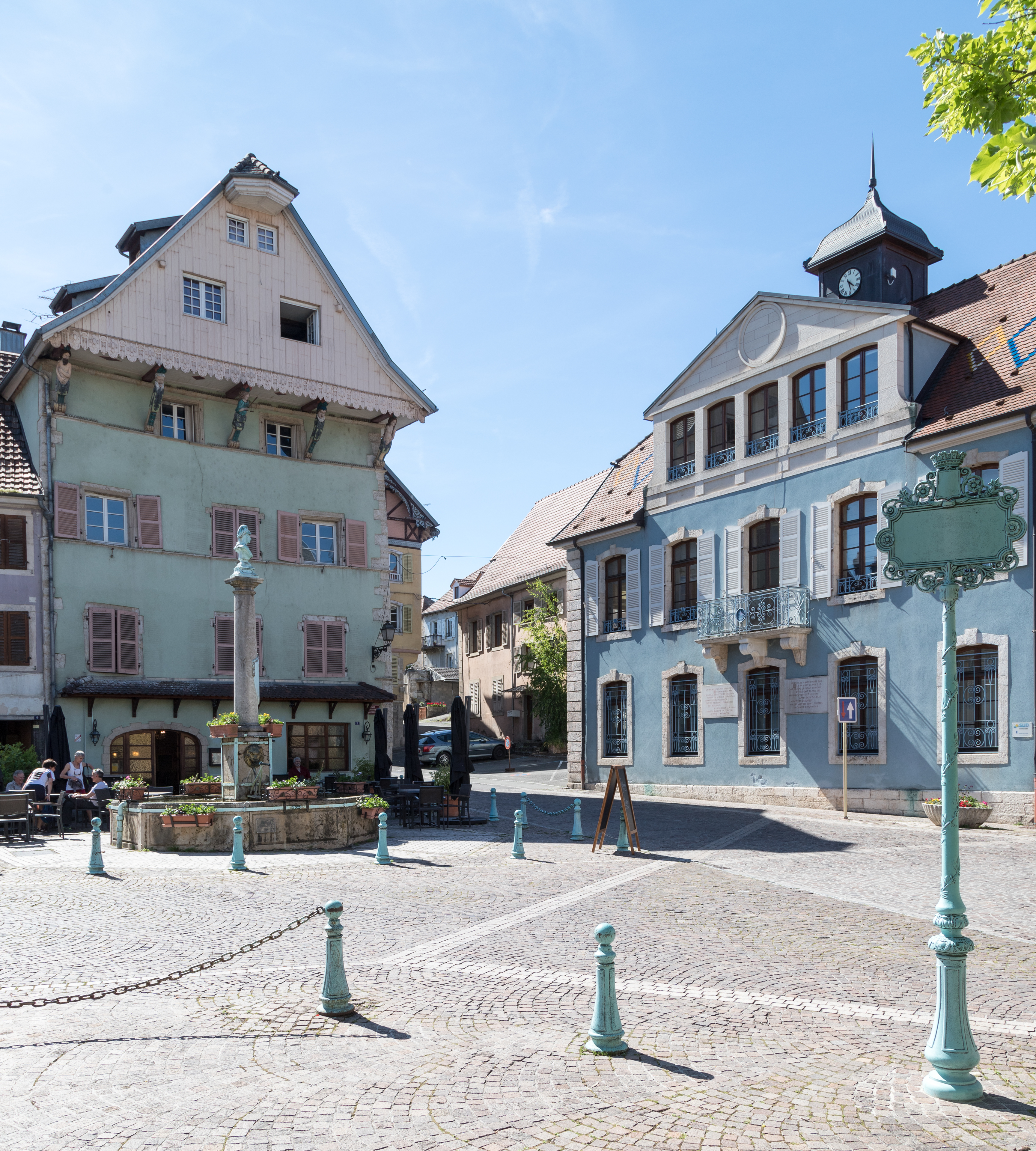 Delle: Place Raymond Formi